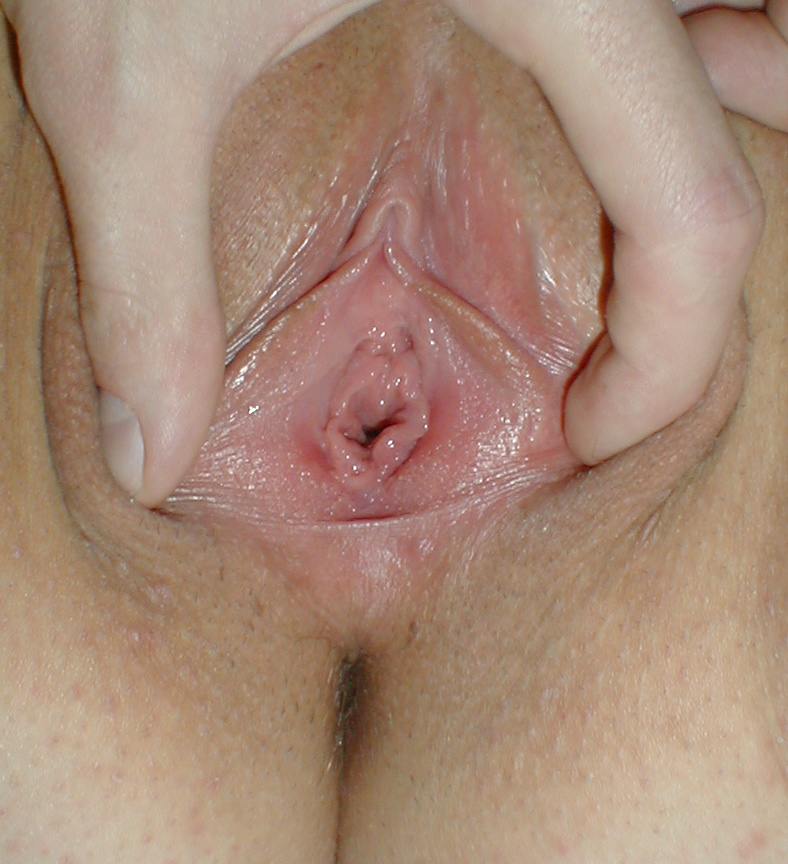 External female genitalia with the labia separated exposing the vaginal opening, or vestibule of the vagina.